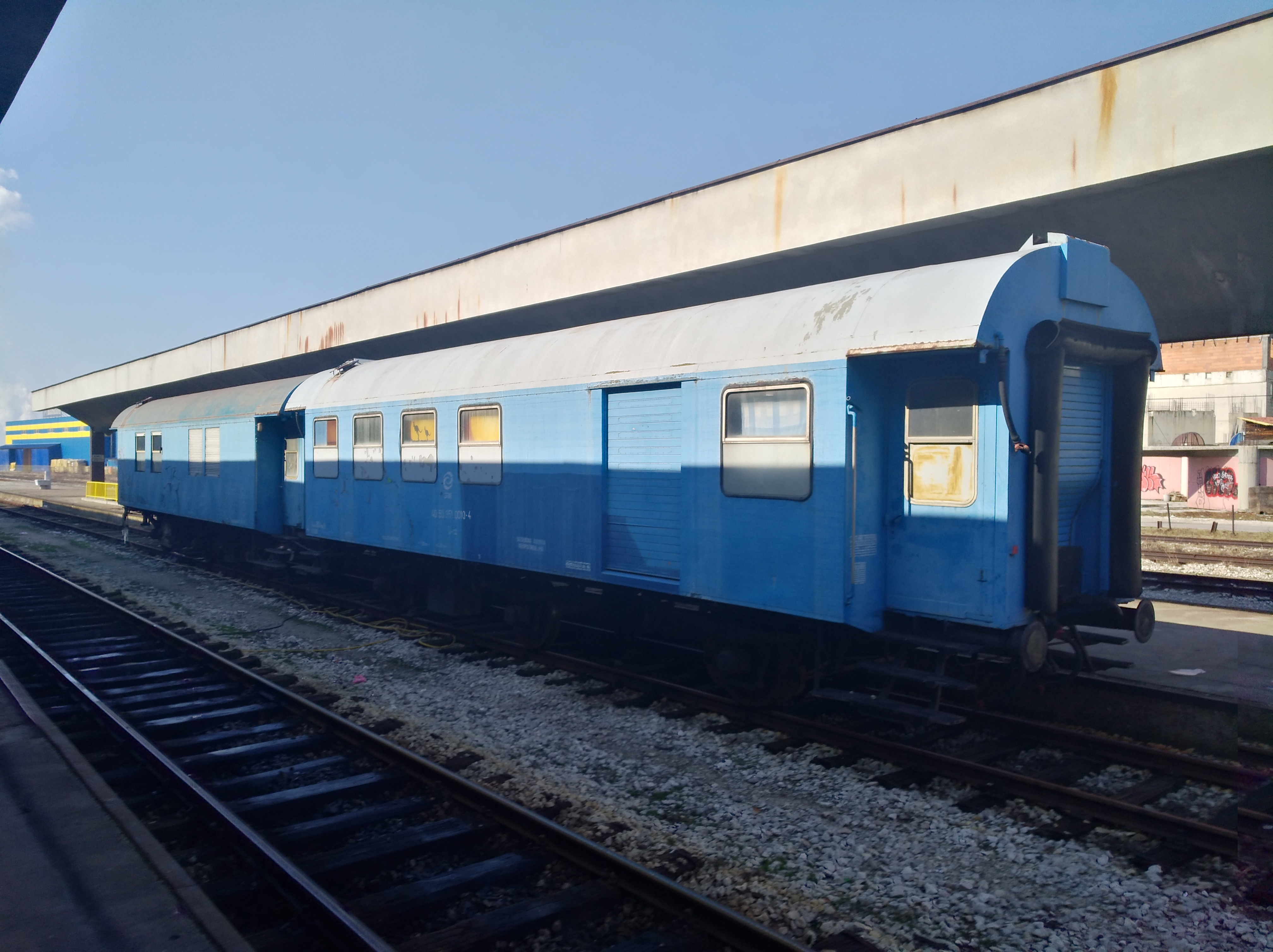 Railway station of Tuzla, Bosnia and Herzegovina.